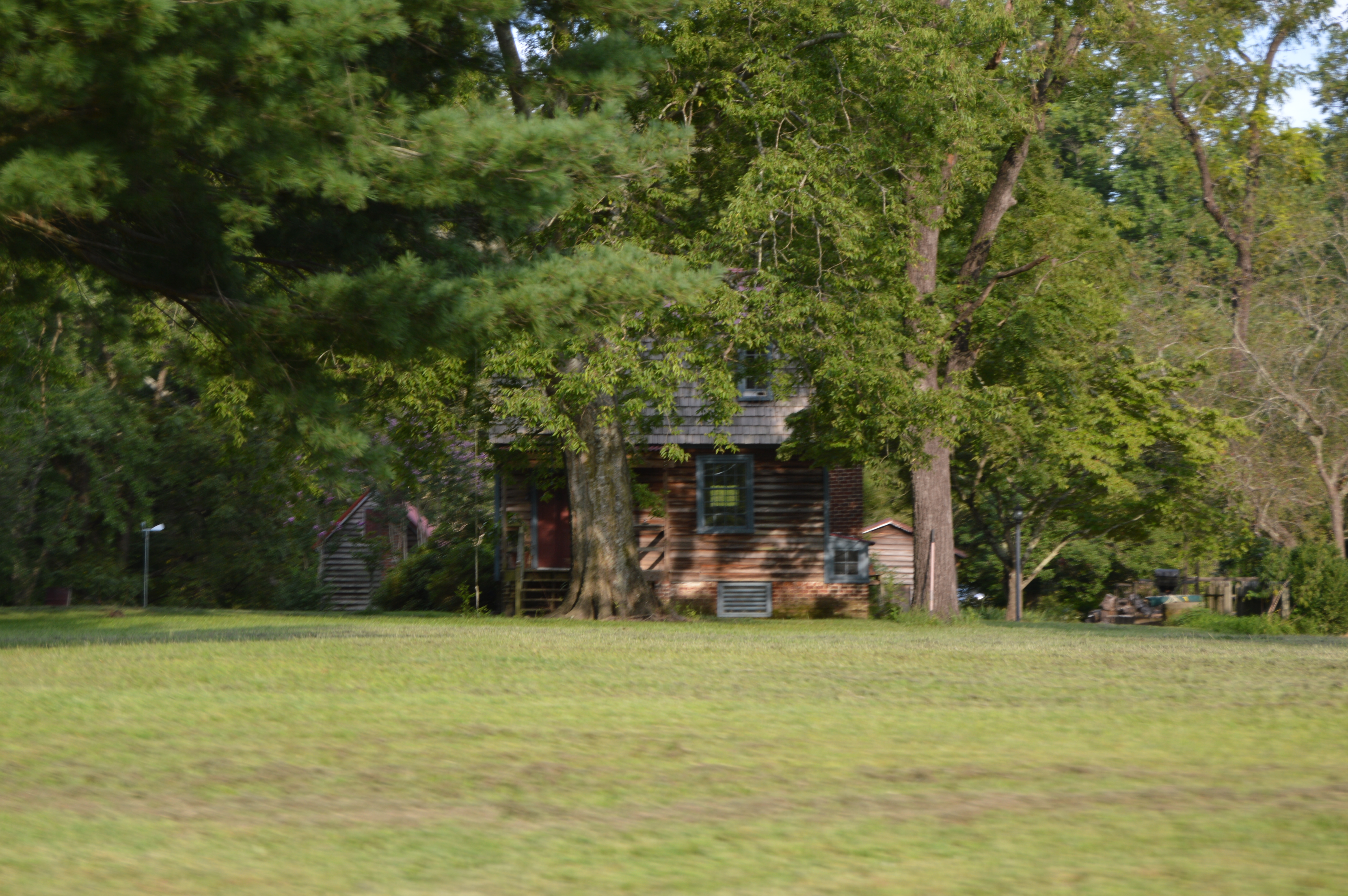 Roadside view of Woodlawn, located on U.S. Route 360 between Millers Tavern and Tappahannock in Essex County, Virginia, United States. Built in 1820, it is listed on the National Register of Historic Places.